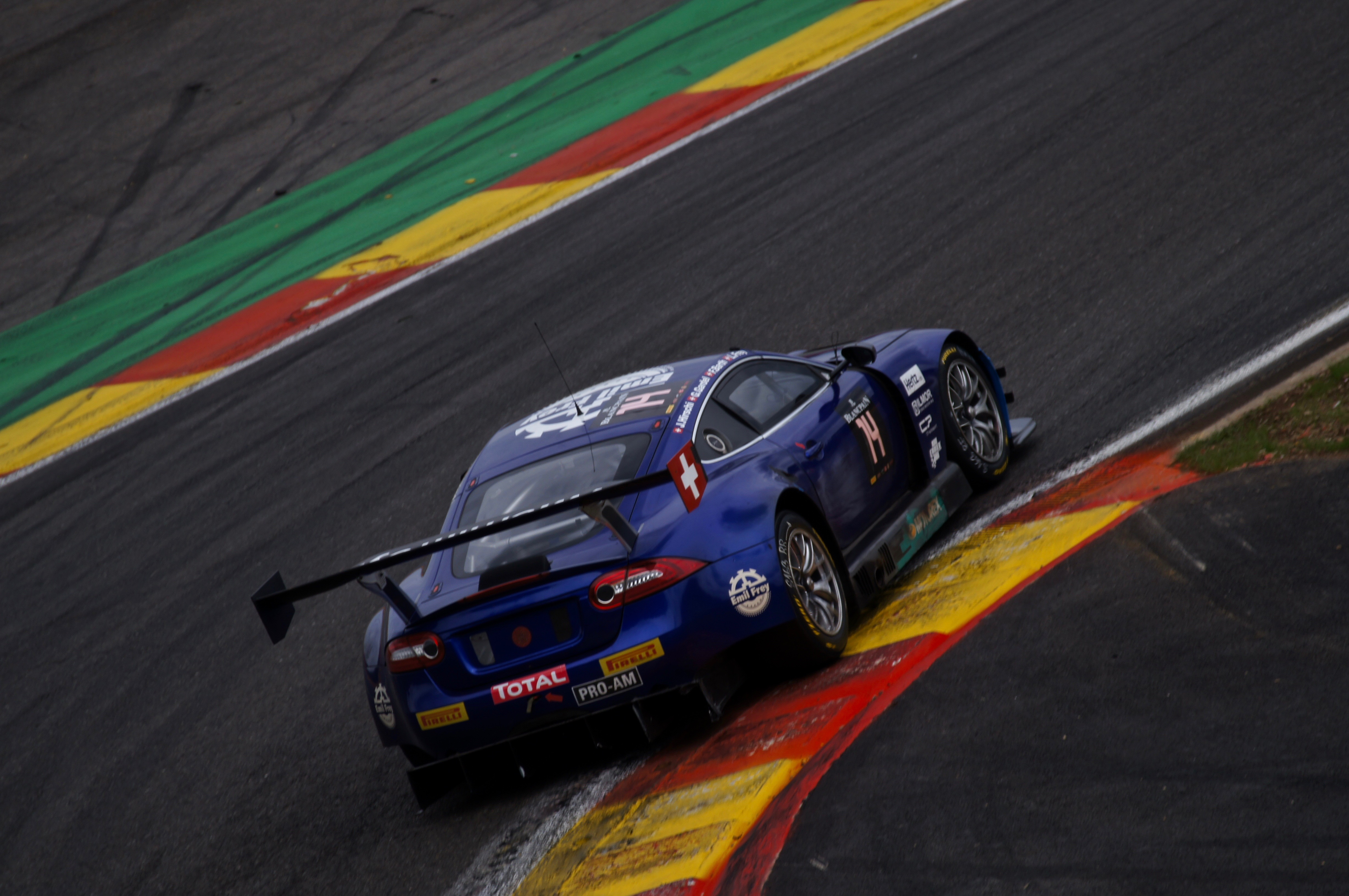 Jaguar XK Emil Frey G3 at the 2015 24 Hours of Spa